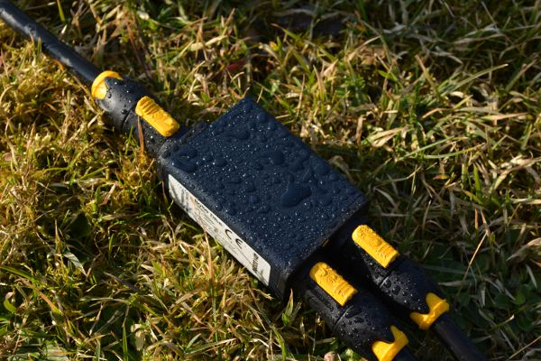 BoXo Dive the only small sized IP 65 Y Splitter . Full IP65 rated.